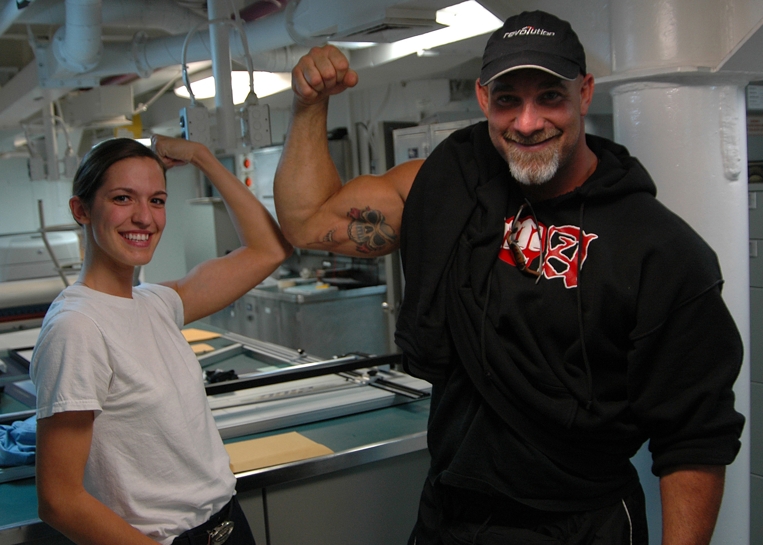 Wrestler Bill Goldberg visit USS Ronald Reagan; 050518-N-0608R-067 Pacific Ocean (May 18, 2005) - Professional wrestling champion and actor Bill Goldberg compares biceps with Photographer's Mate Airman Kathleen Gorby during a tour of USS Ronald Reagan (CVN 76)'s Photo Lab. Goldberg was aboard Ronald Reagan to premier his new film, "The Longest Yard” and visit with the ship’s crew and embarked air wing personnel. The Nimitz-class nuclear powered aircraft carrier is currently underway in the Pacific Ocean conducting carrier qualifications for various west coast Fleet Replacement Squadrons (FRS). U.S. Navy photo by Photographer’s Mate Airman Apprentice Adam Rickert